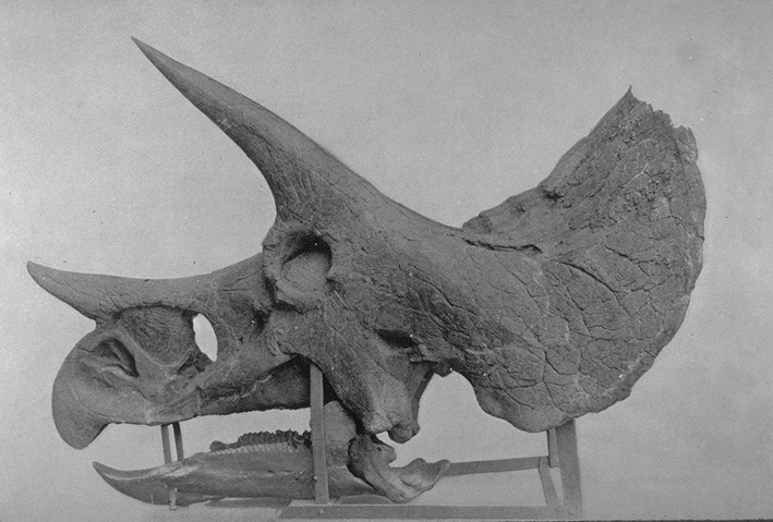 Specimen YPM 1822, holotype of Triceratops prorsus.